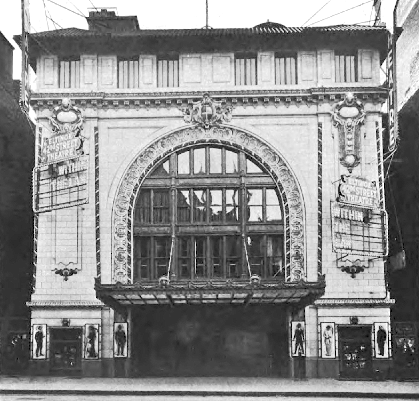 Front of the Eltinge 42nd Street Theatre in 1912. Signs announce the new play Within the Law, which was the theater's first production.